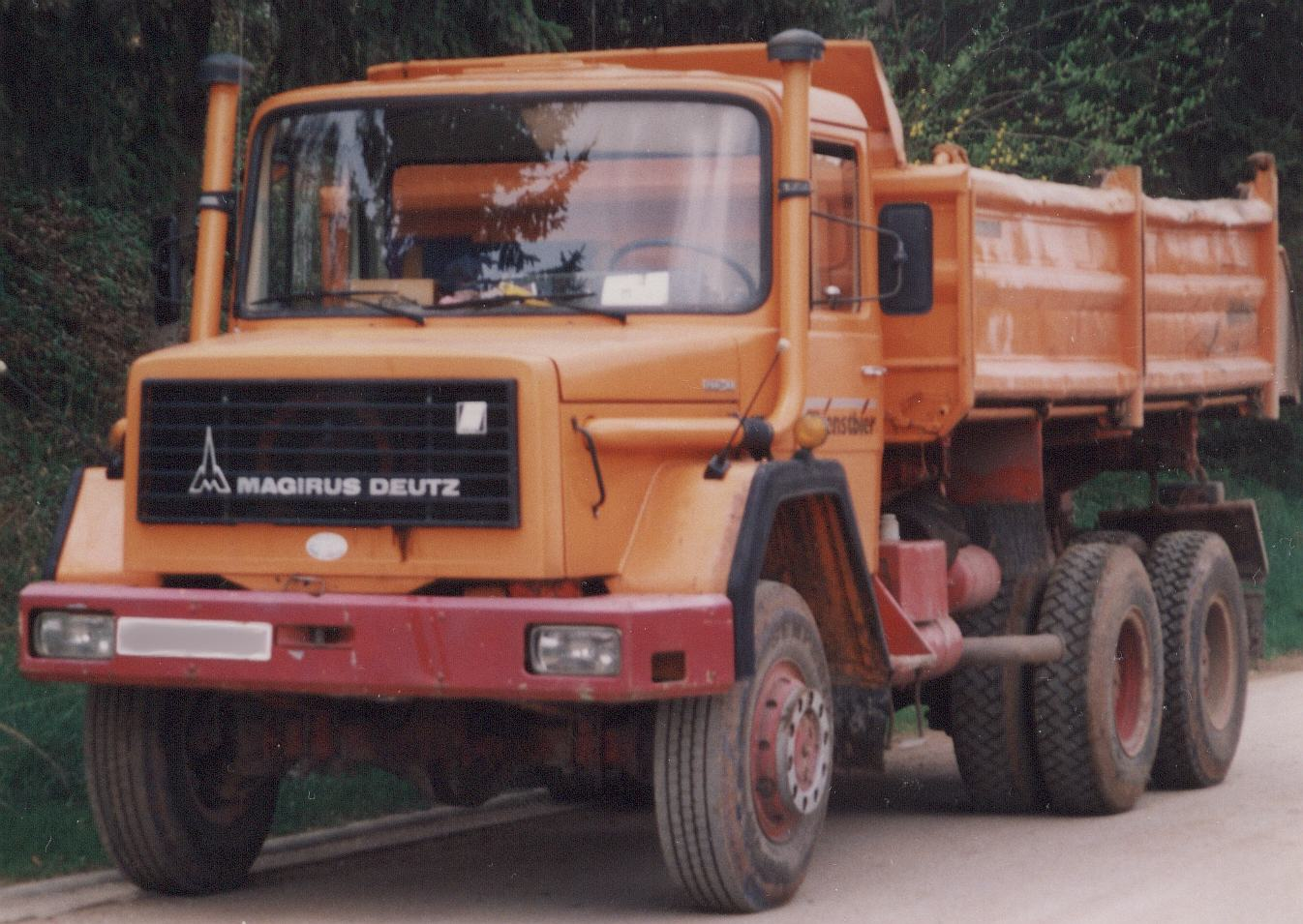 Magirus-Deutz tipper lorry M 256 D 26 AK